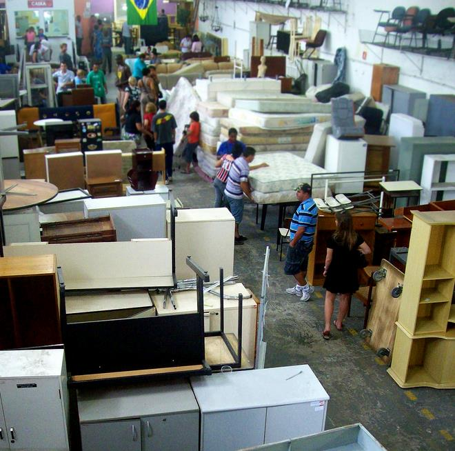 Salvation Army Thrift Store in Sao Paulo, Brazil